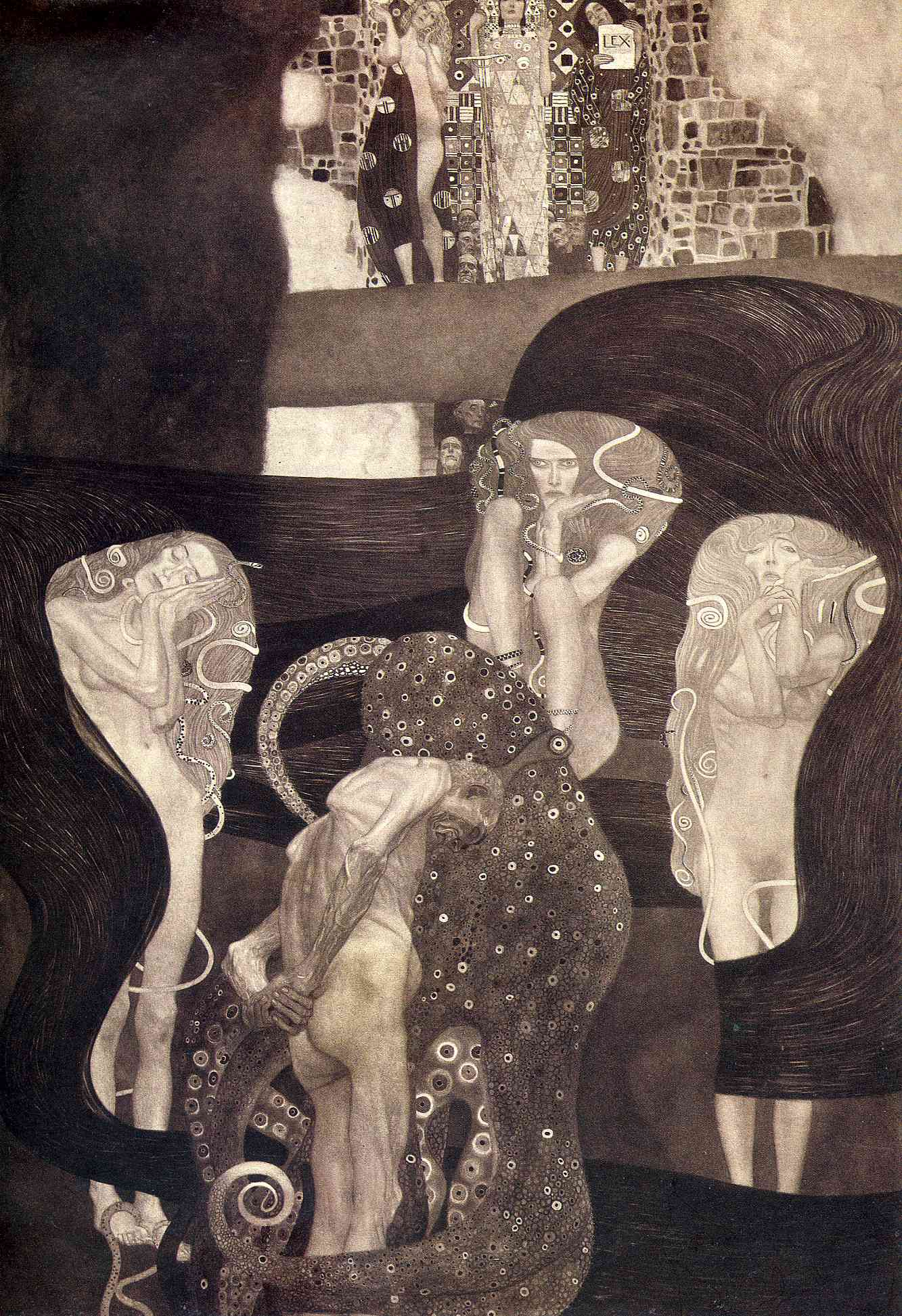 Destroyed painting for the University of Vienna